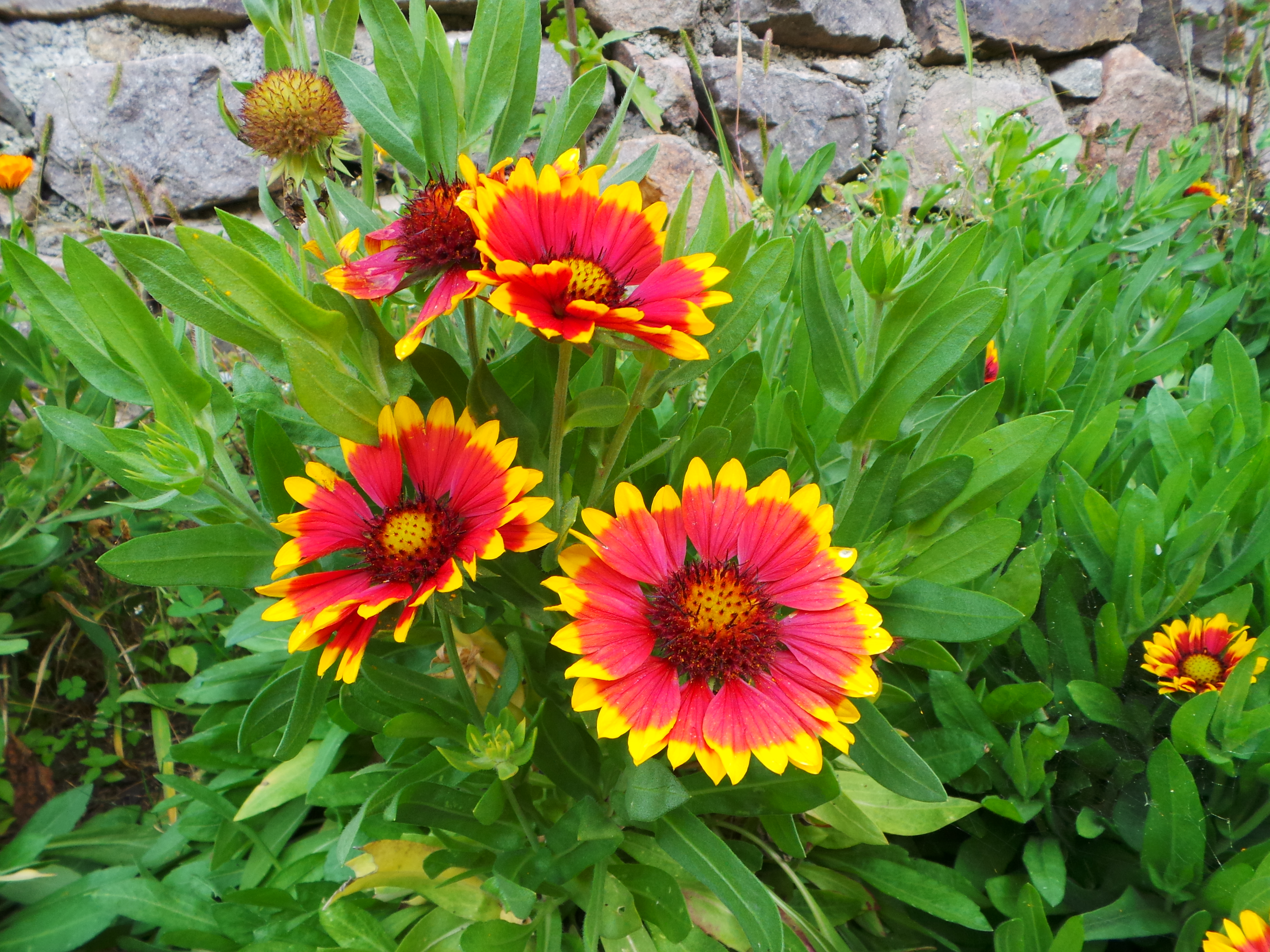 Flowers of Gaillardia aristata in Segonzano